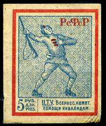 Revenue stamp of voluntary gathering of the All-Russia committee of the help to invalids of war, 1922